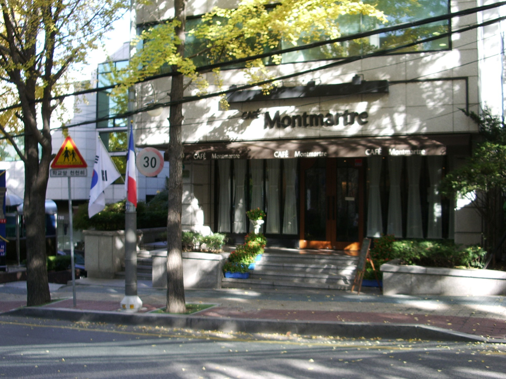 Seorae Village, in Banpo-dong near the express bus terminal in southern Seoul, is home to many people of French origin. I don't know how that came about, but it is a very interesting place to walk through. There is no way I am going to mistake this place for a Parisian neighborhood; the ambiance and the architecture are so modern-day Seoul (not necessarily pleasing). But every light pole has a flag pair (the South Korean Taegeukki and the French Tricouleurs) and even the sidewalks are done with the French tricouleurs. Many community services, such as a school, cater to the needs of the French. At least I could reminisce my moments in Paris, which is one of my favorite travel destinations around the world. And about a year later, I would find myself again in Paris.